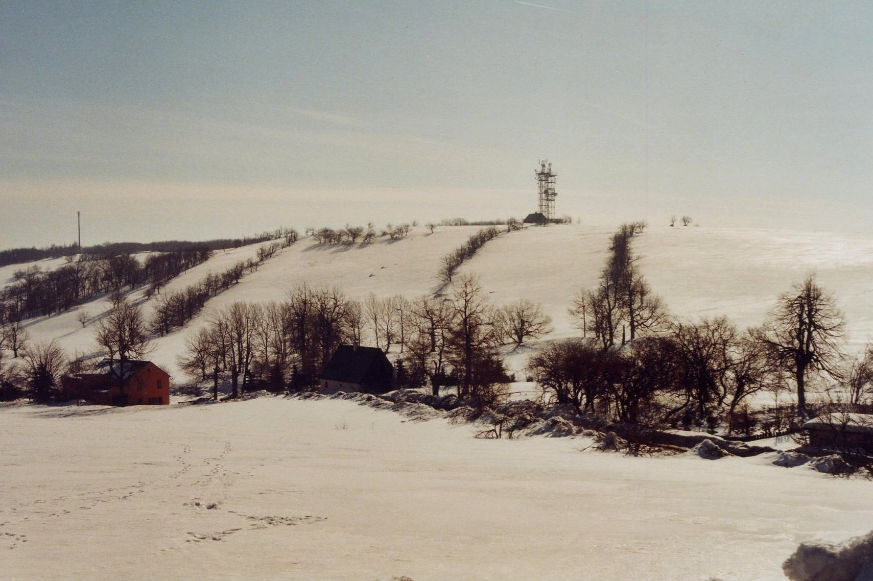 This image shows the Nollendorfer Höhe (Nakléřovská vyšina) in the Ore Mountains, Czech Republic.